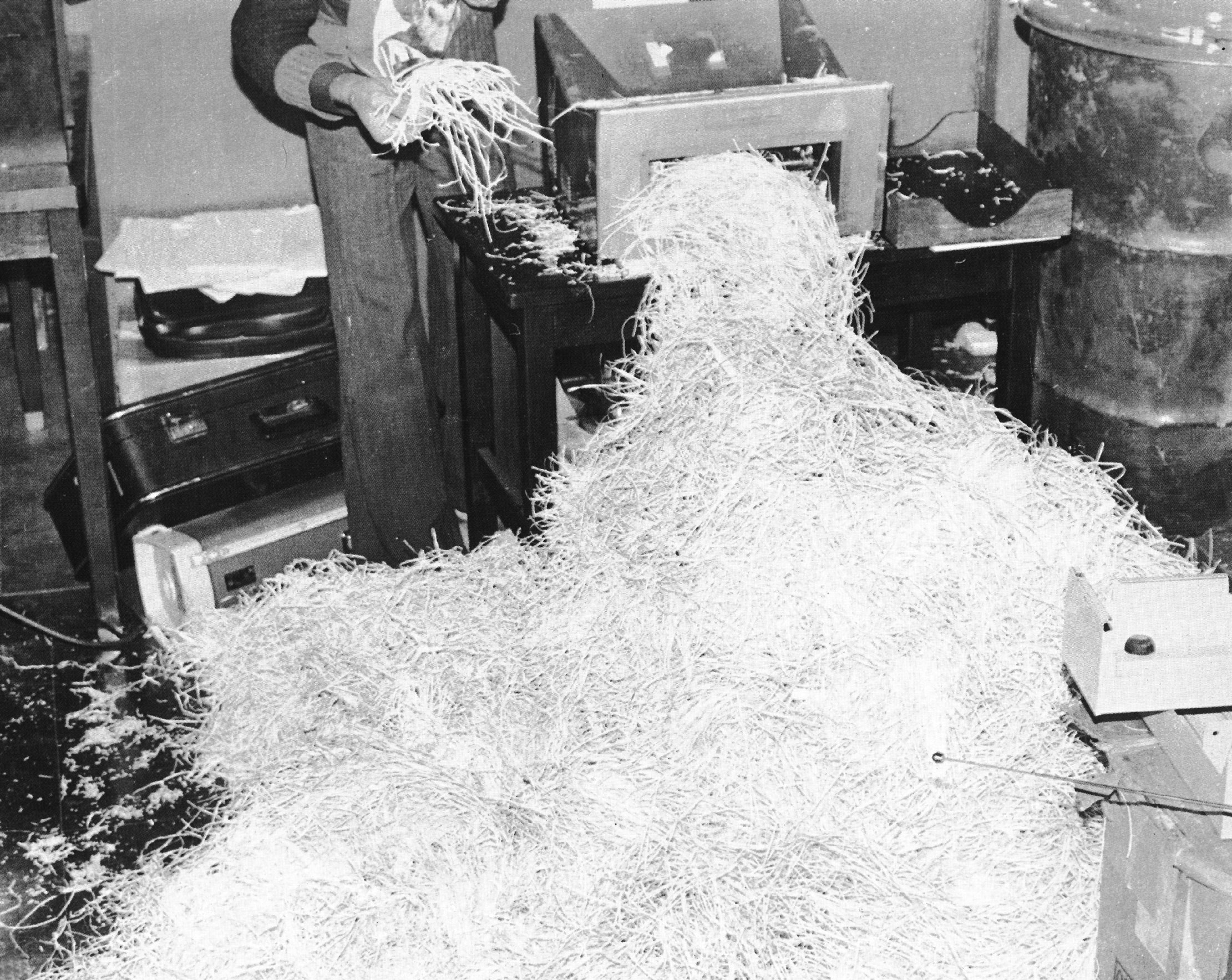 Shredded Documents of US Embassy